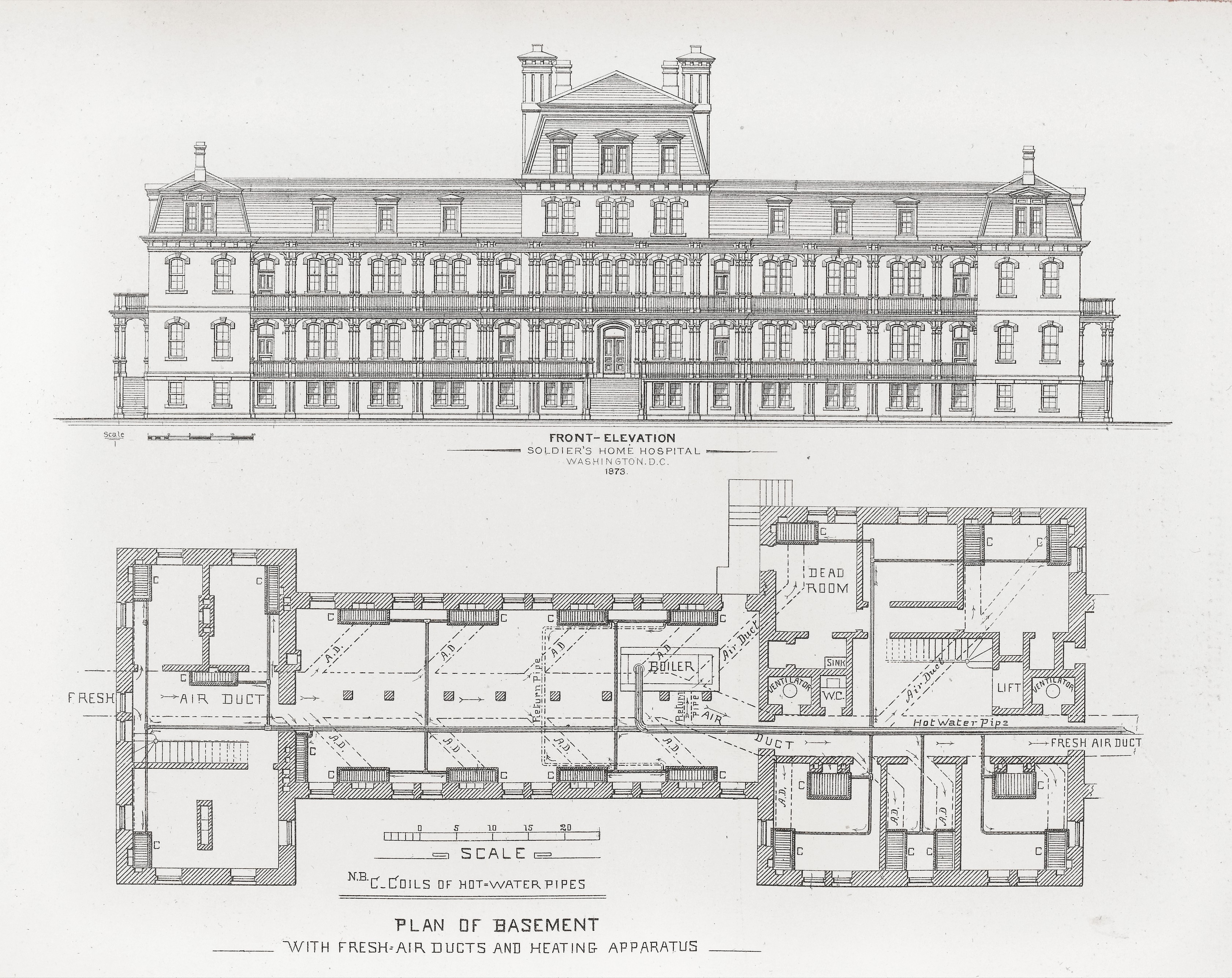 Page from book - illustration of soldiers home hospital. Washington DC 1873. Including plan of basement with fresh air ducts and heating apparatus. Wellcome Images Keywords: Military Hygiene; John Shaw Billings